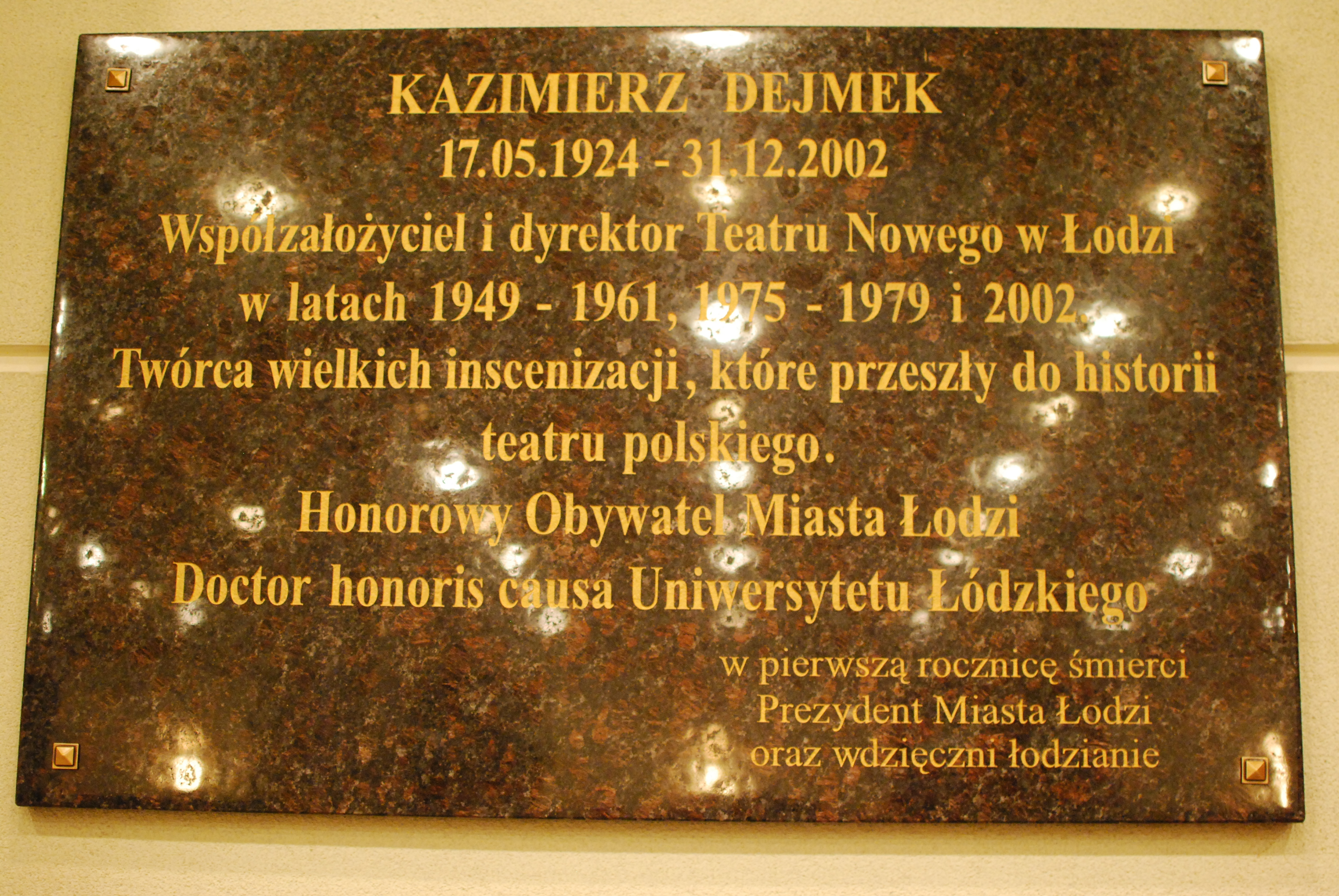 Kazimierz Dejmek plaque, Łódź Teatr Nowy